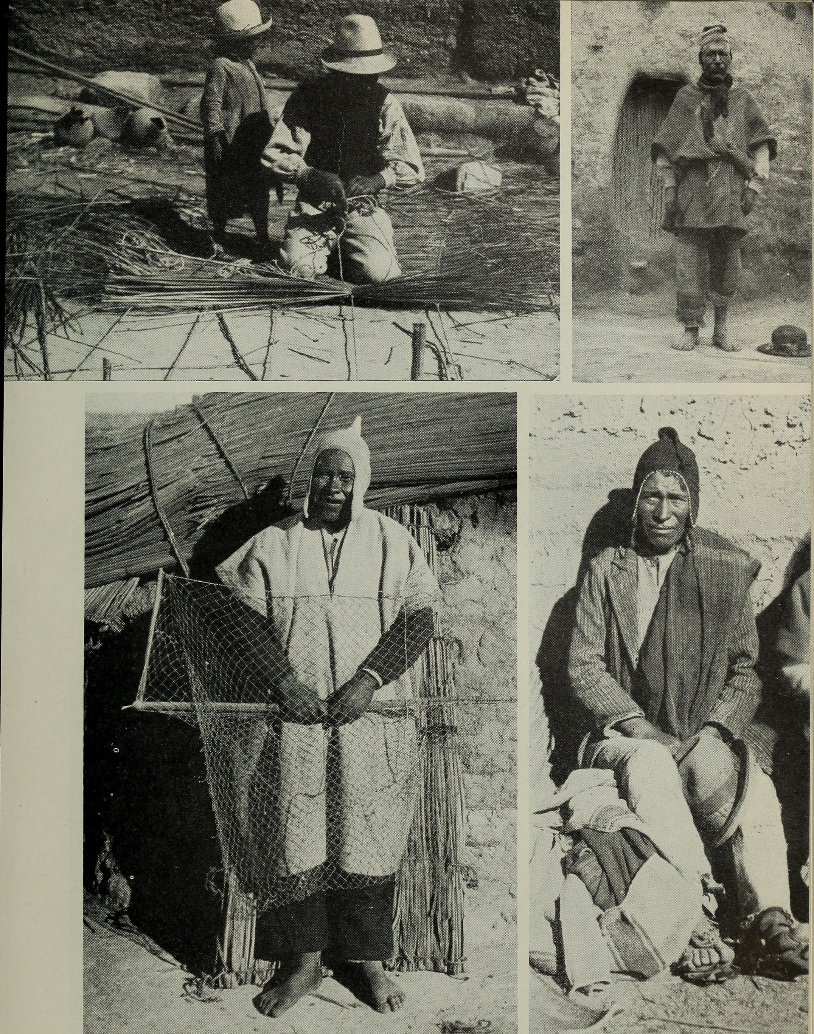 Title: Bulletin Year: 1901 (1900s) Authors: Smithsonian Institution. Bureau of American Ethnology Subjects: Ethnology Publisher: Washington : G. P. O. Text Appearing Before Image: ' Text Appearing After Image: Plate 117.—Uru and Chipaya Indians. Top (left): Uru man making a mat. Top (right): Chipaya man. Bottom (left): Uru man holding a fishing net. Bottom (right): Uru man. (Courtesy Alfred Metraux.)